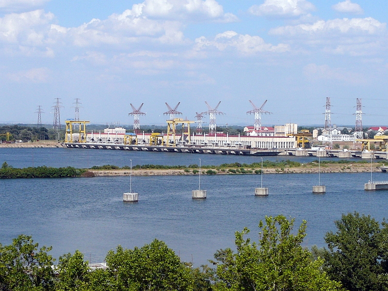 Iron Gate II (Djerdap 2) hydroelectric power station on the Romania/Serbia border, viewed from upstream Serbian side